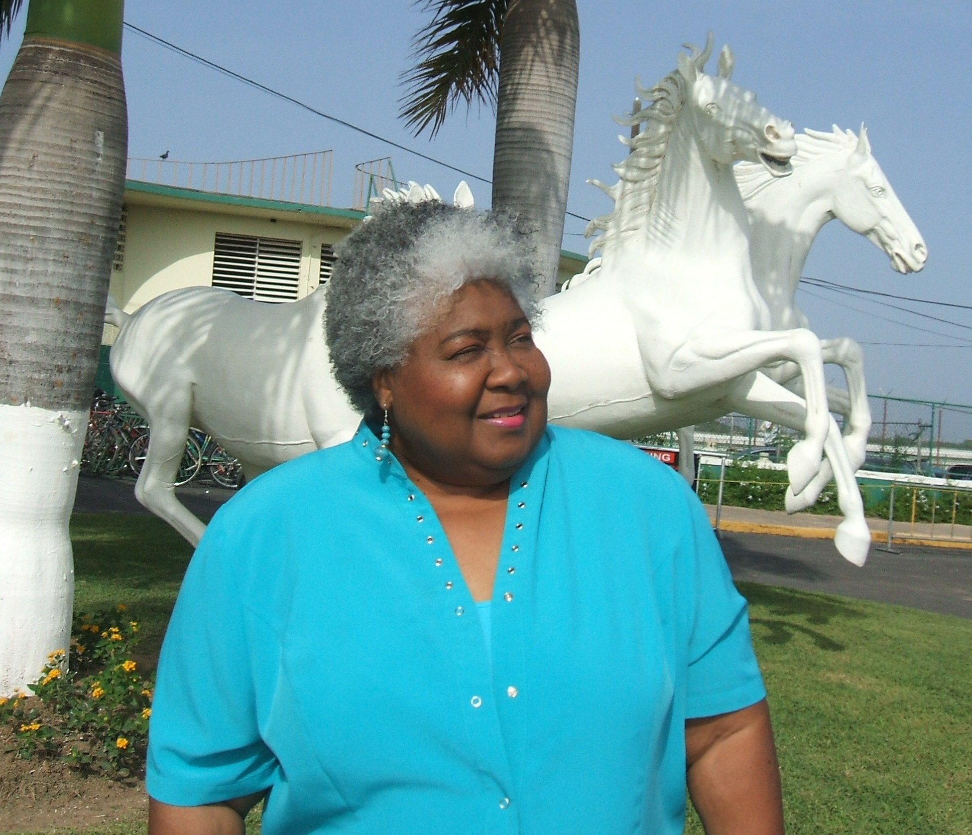 Dorothy sang at Jamaica race track August 2011.